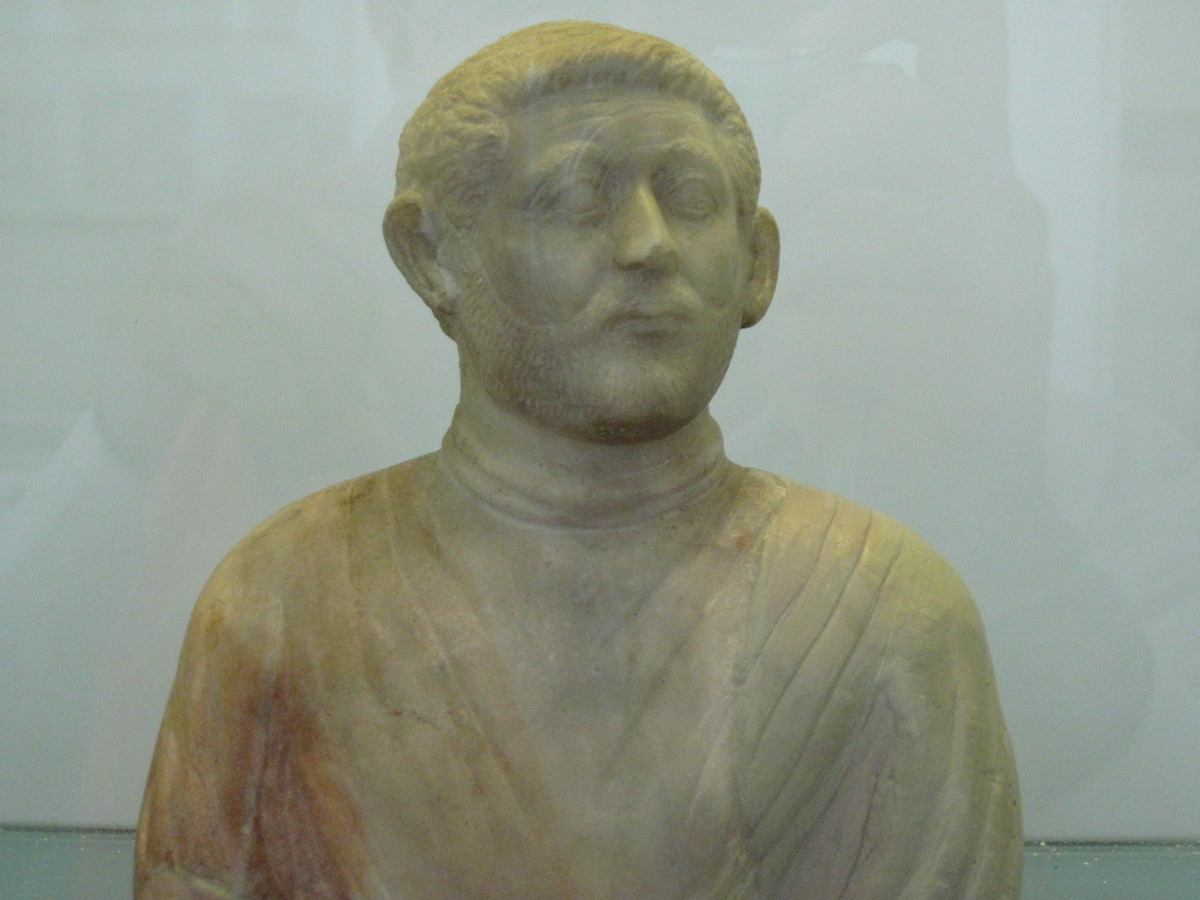 Sassanid dynasty art.